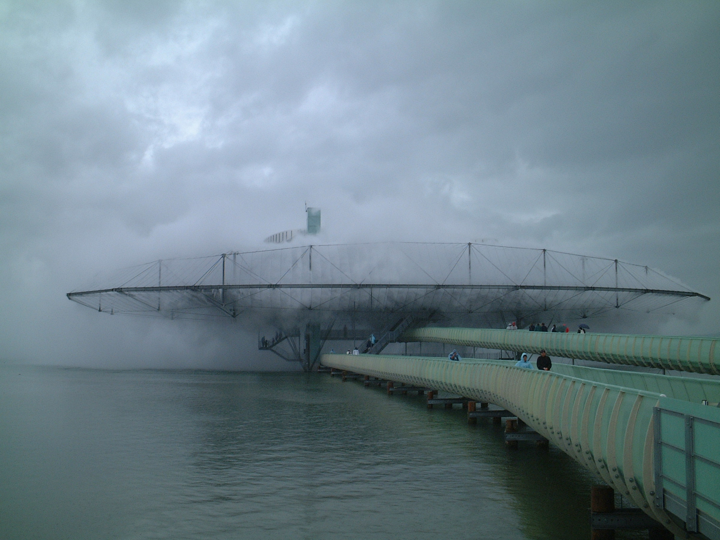 Expo.02 in Neuenburg, Yverdon, Biel and Murten (exact location see file name)